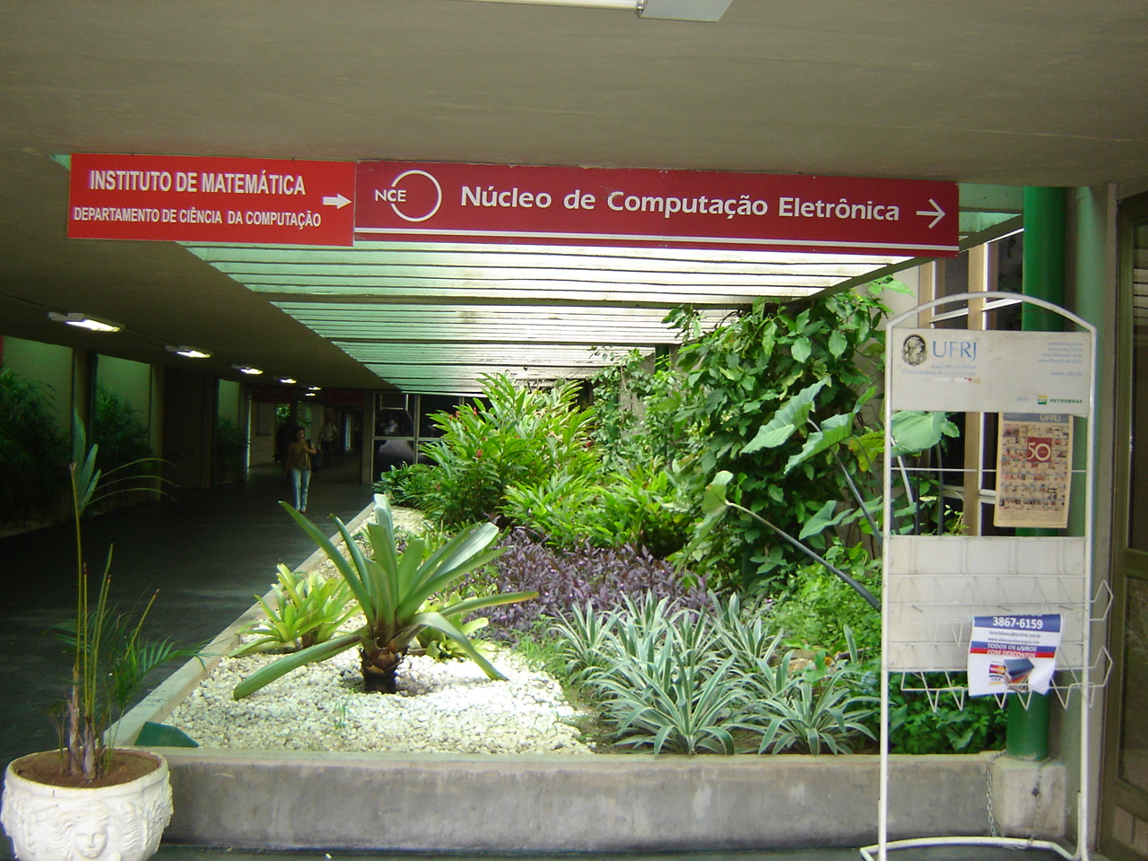 UFRJ'Nucleo de Computaçao Eletronica entrance